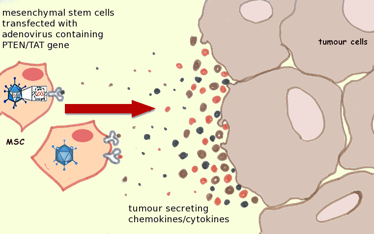 Mesenchymal stem cells migrating to tumour cells via chemoattraction adapted from ong-Jun Dai, Mani R. Moniri, Zhi-Rong Zeng, Jeff X. Zhou, Jarrett Rayat, Garth L. Warnock. “Potential implications of mesenchymal stem cells in cancer therapy”. Cancer Letters, Volume 305, Issue 1, 1 June 2011, Pages 8–20.